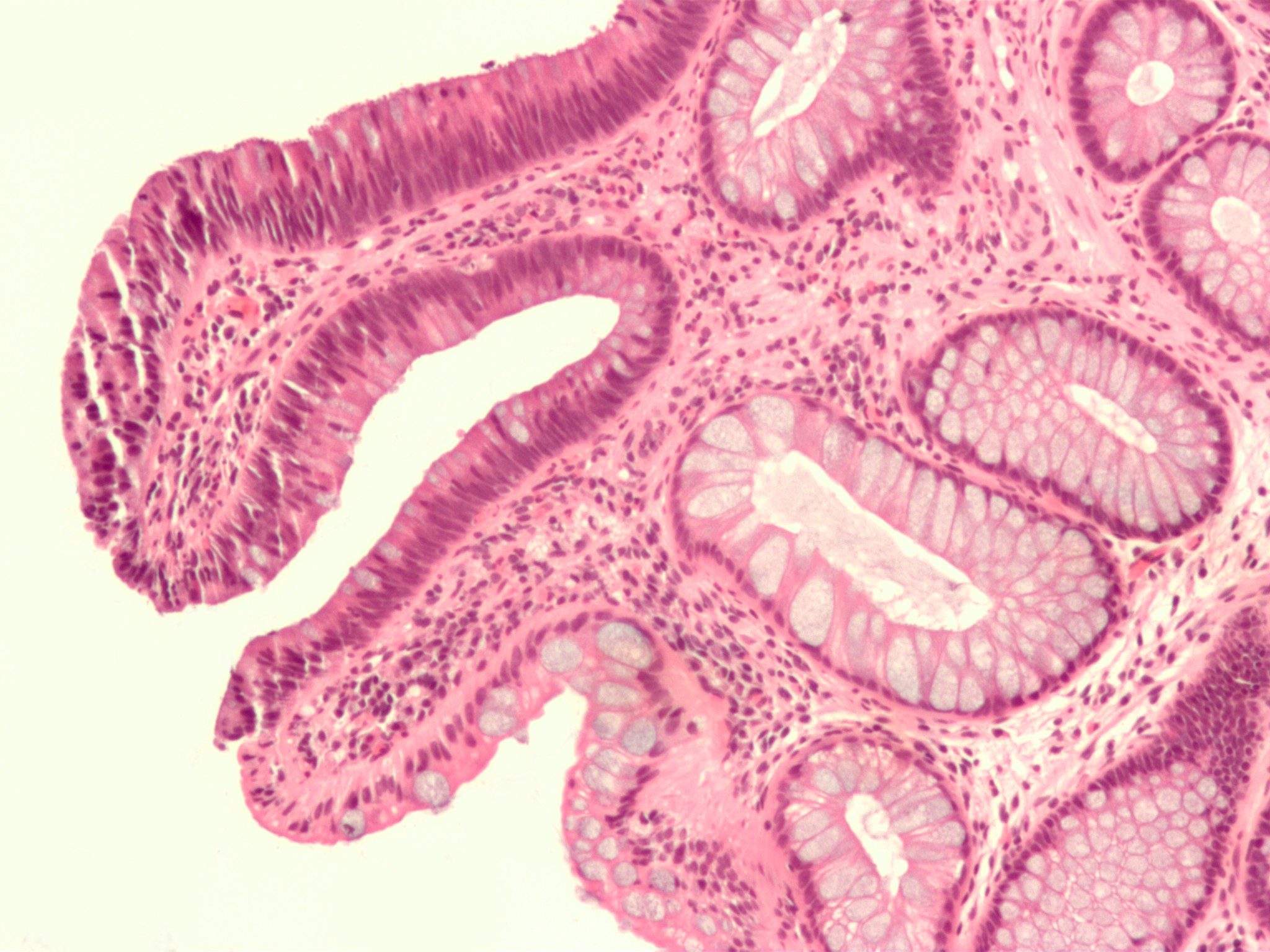 Micrograph of a colorectal tubular adenoma. No high grade dysplasia. H&E stain. Specimen removed during a colonoscopy. The lesional tissue, i.e. dysplastic epithelium, is seen on the left of the image and characterized by nuclear hyperchromatism (i.e. dark purple nuclei), nuclear crowding (i.e. nuclei are bunched-up), elliptical/cigar-shaped nuclei and loss of goblet cells/reduction in the number of goblet cells. Normal colonic type epithelium is seen on the right of the image and characterized by small round nuclei and abundant goblet cells. See also: Intestinal polyps Colorectal cancer Related images Another case: Low mag. Intermed. mag. High mag.